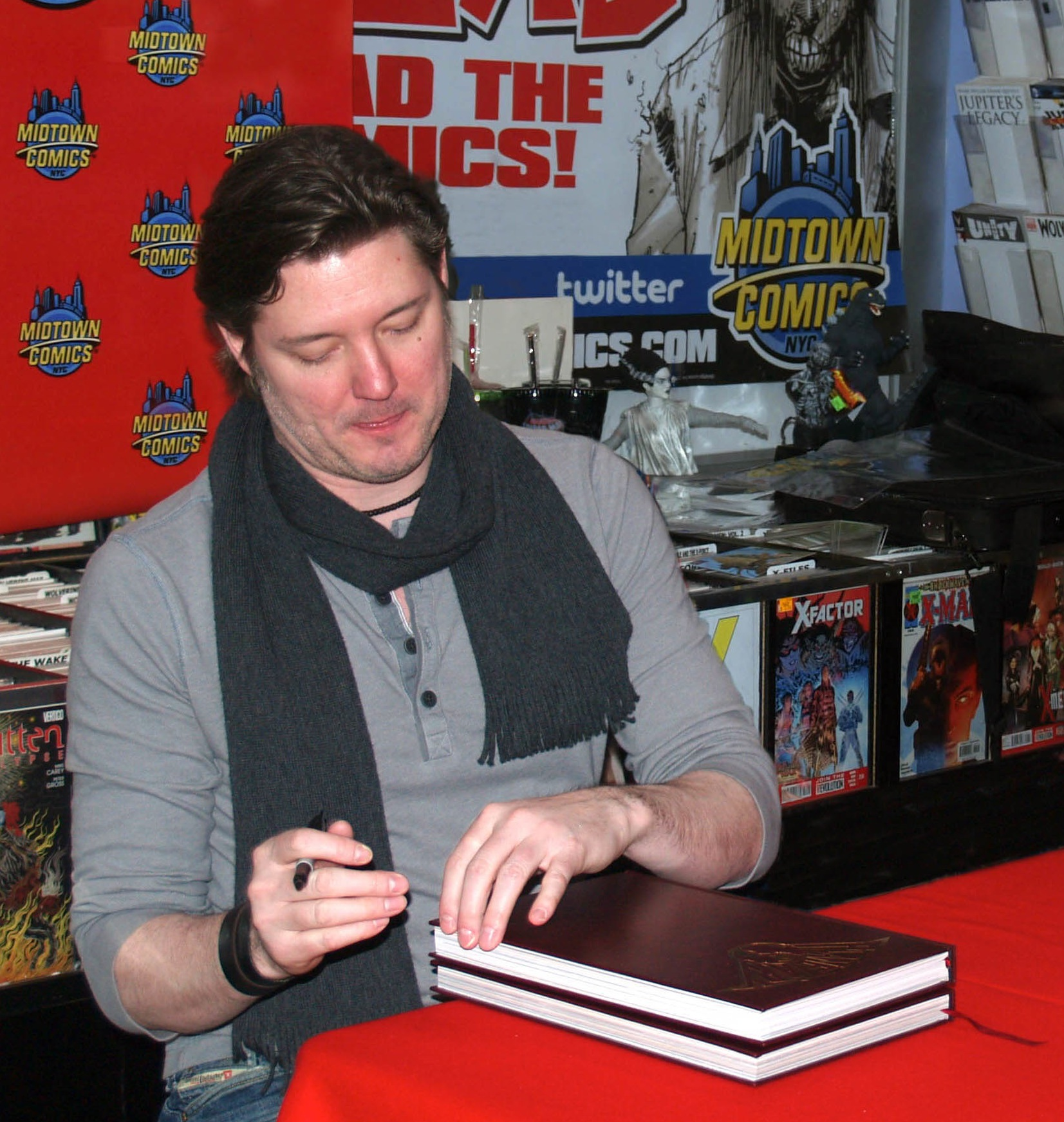 Comics artist John Cassaday at a January 16, 2015 signing for Star Wars #1 at Midtown Comics Downtown in Manhattan. The publication of the book represented the first Star Wars comic to be published by Marvel Comics since 1987, following the acquisition of Marvel by Disney in 2009. In the photo, Cassaday is signing a copies of the hardcover collections of Planetary, a previous work of his. This photo was created by Luigi Novi. It is not in the public domain, and use of this file outside of the licensing terms is a copyright violation.